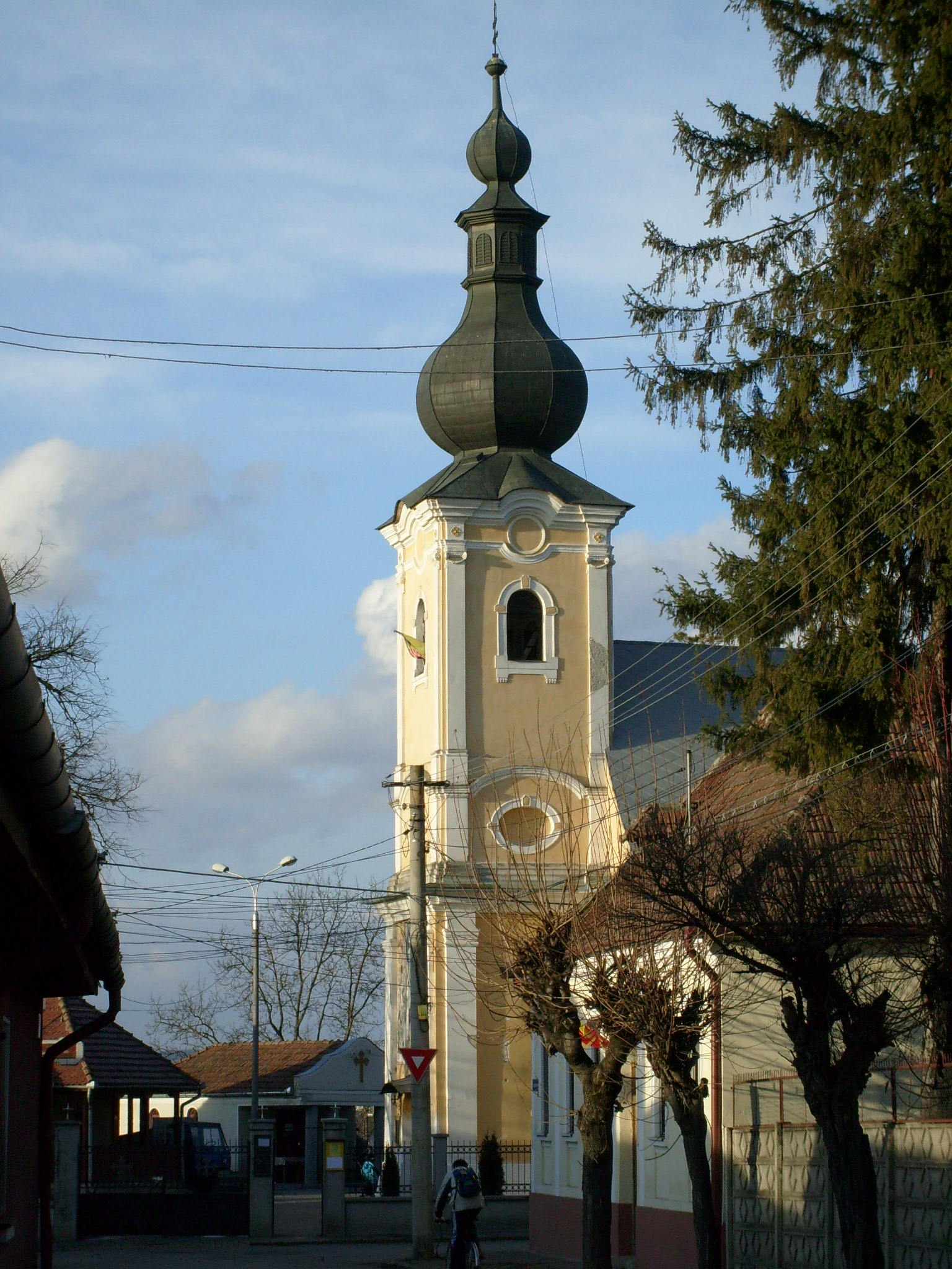 Bob Church in Targu Mures. Greek-Catolic Church]